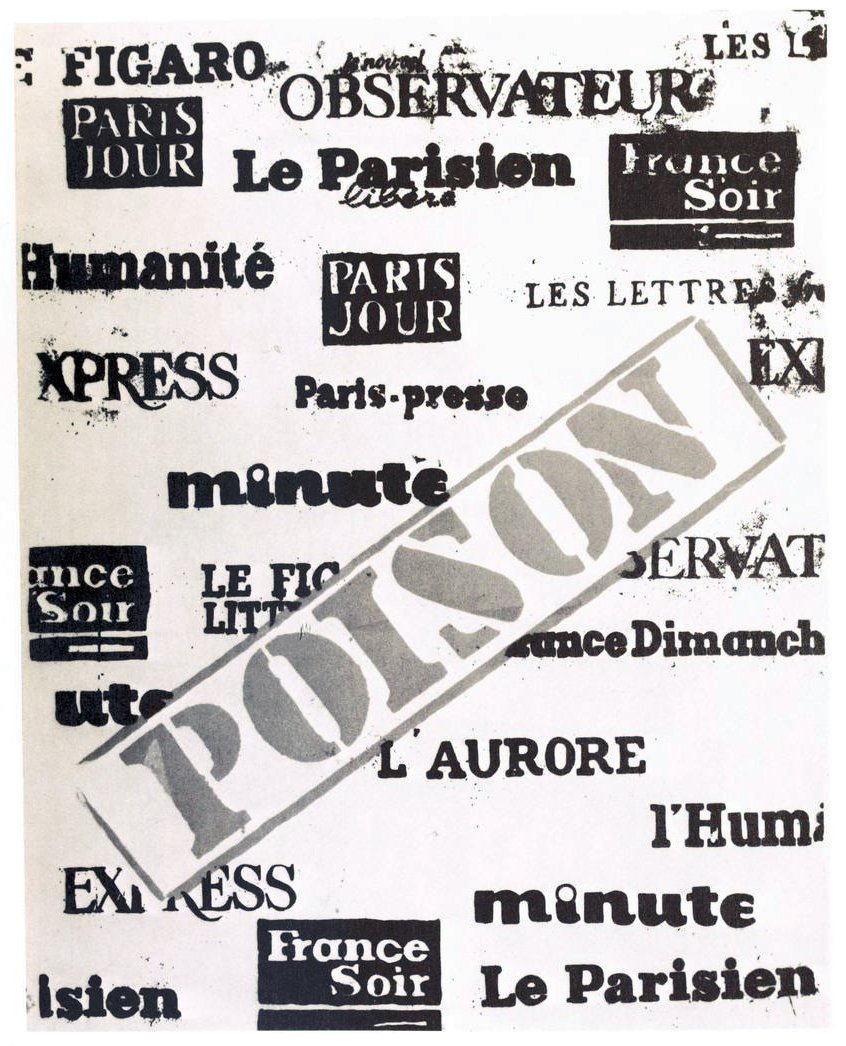 From the catalogue of anexhibition on French May 1968 protest posters: Les Affiches de mai 68 ou l'Imagination graphique. This exhibition was held at the Bibliothèque nationale de France (Paris) from 17 February till 31 March 1982. Copyright holder of this exhibition catalogue is the Bibliothèque nationale de France itself, which has released this catalogue in the public domain. Permalink to the full scanned catalogue